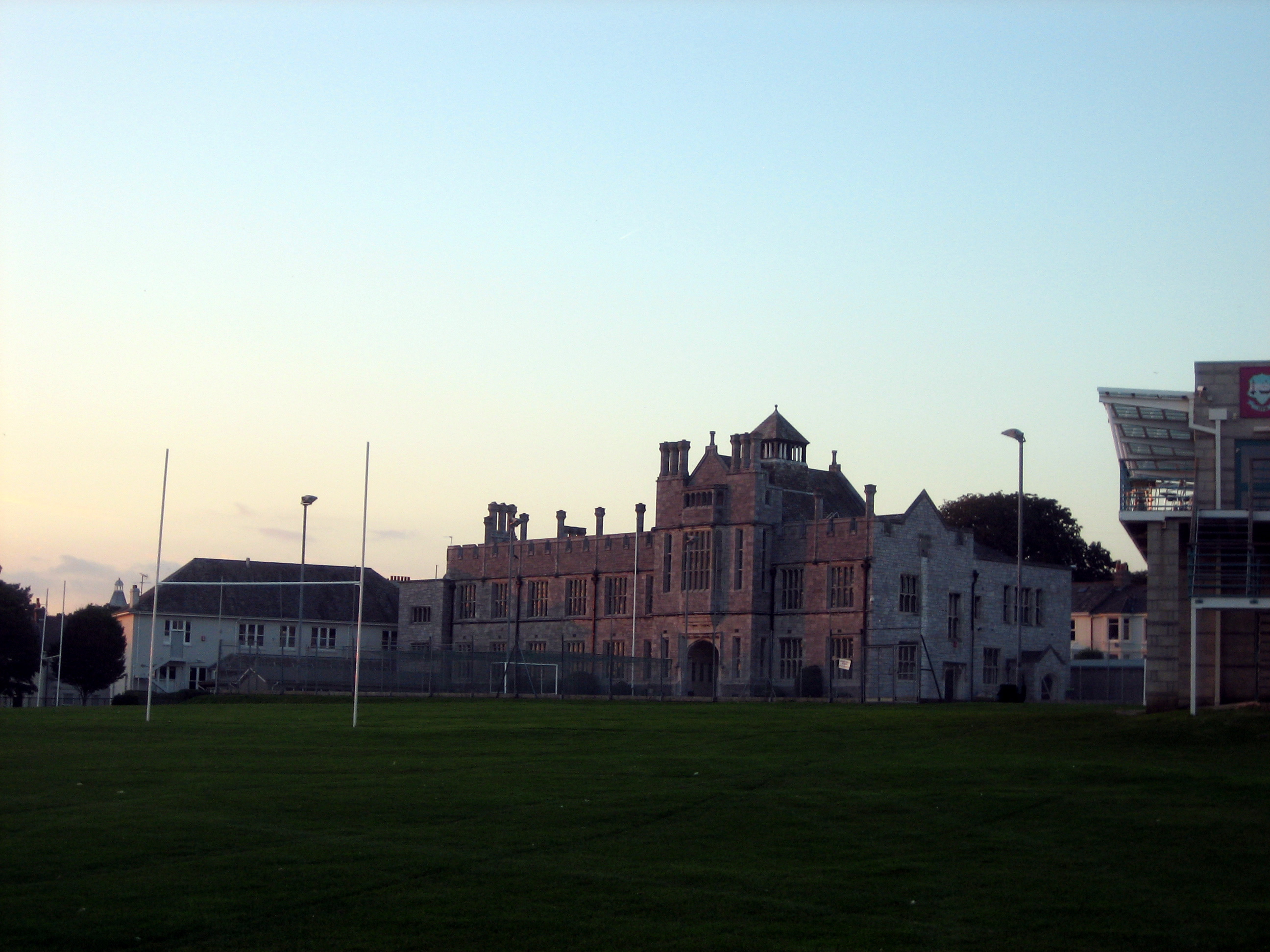 Picture of Plymouth College main building.